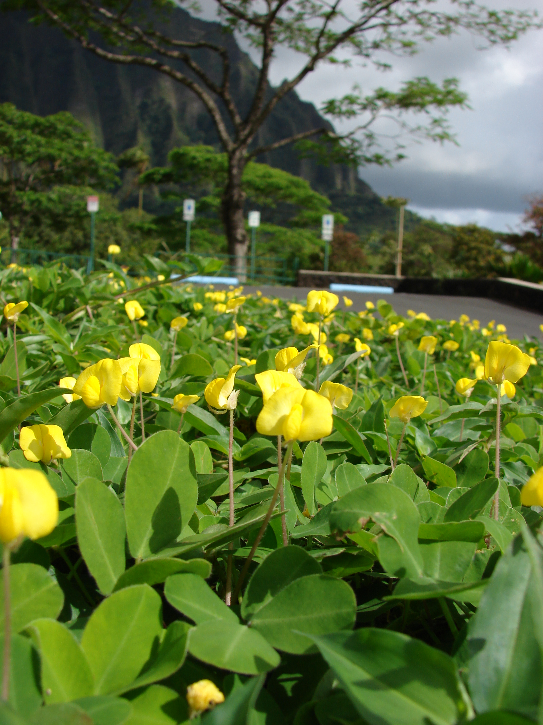 Arachis pintoi (flowering habit). Location: Oahu, Hoomaluhia Botanical Garden